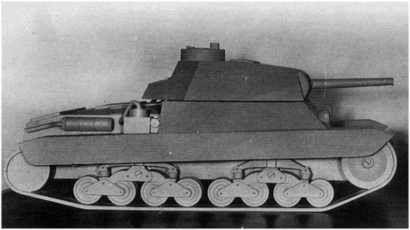 Italian WW2 era exsperimental tank